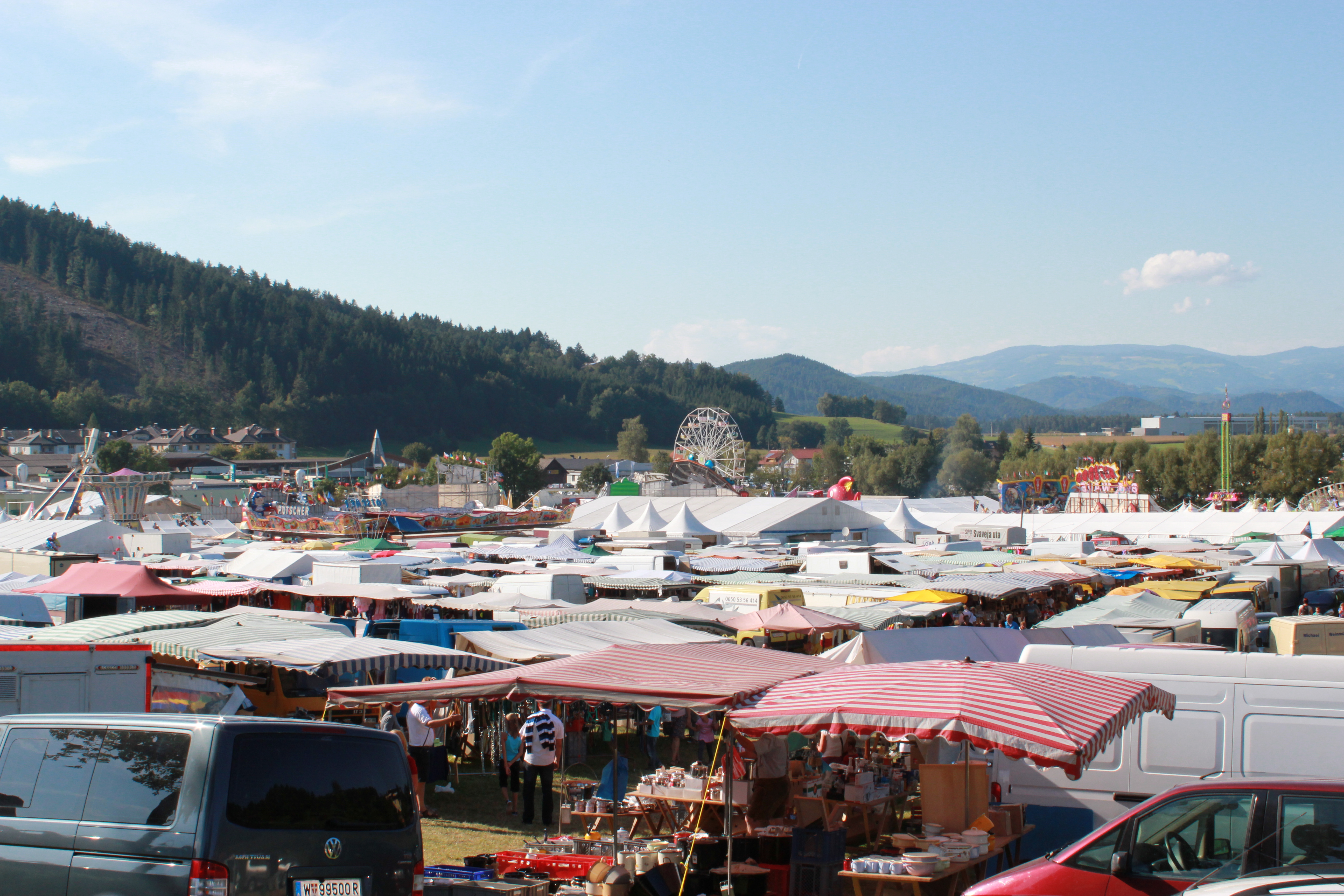 Fair in Bleiburg